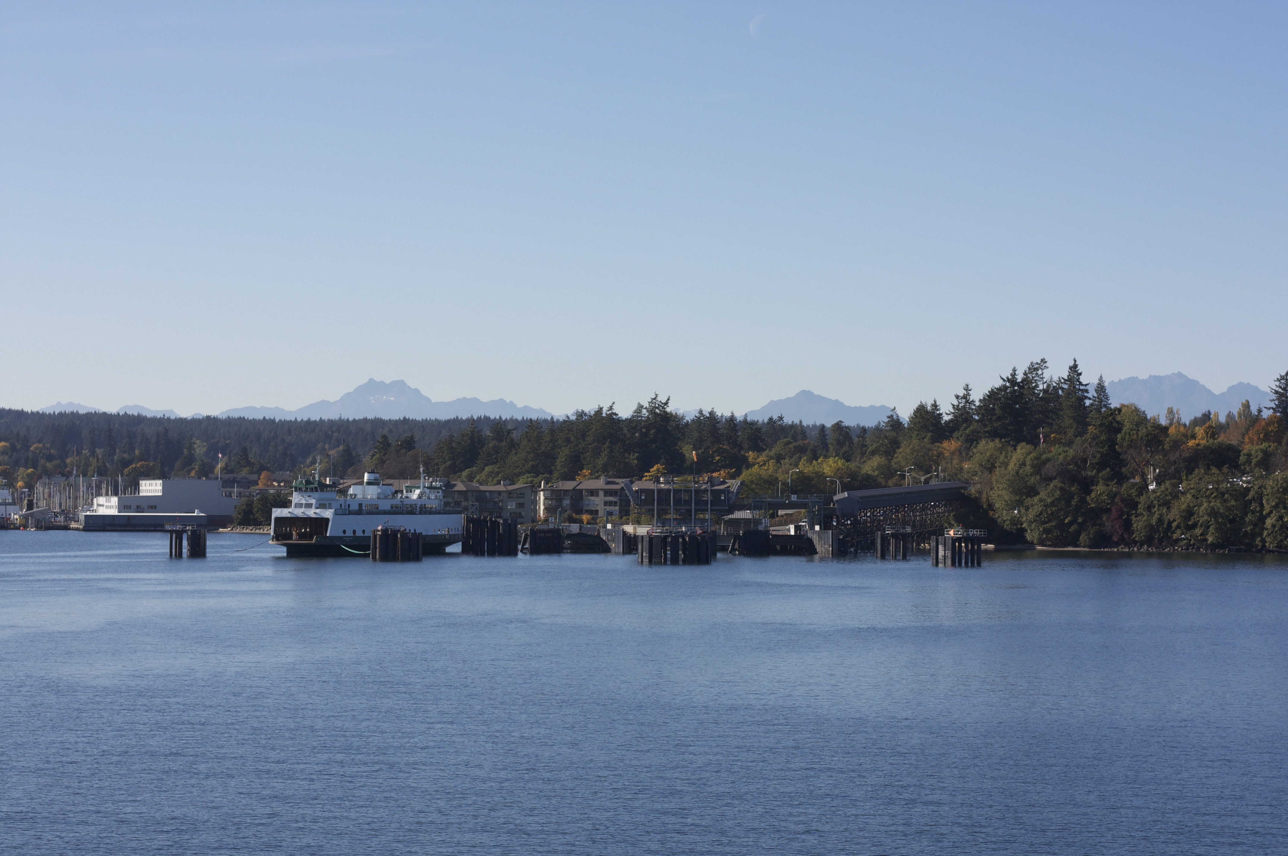 Bainbridge Island, viewed from the ferry approaching Eagle Harbor.